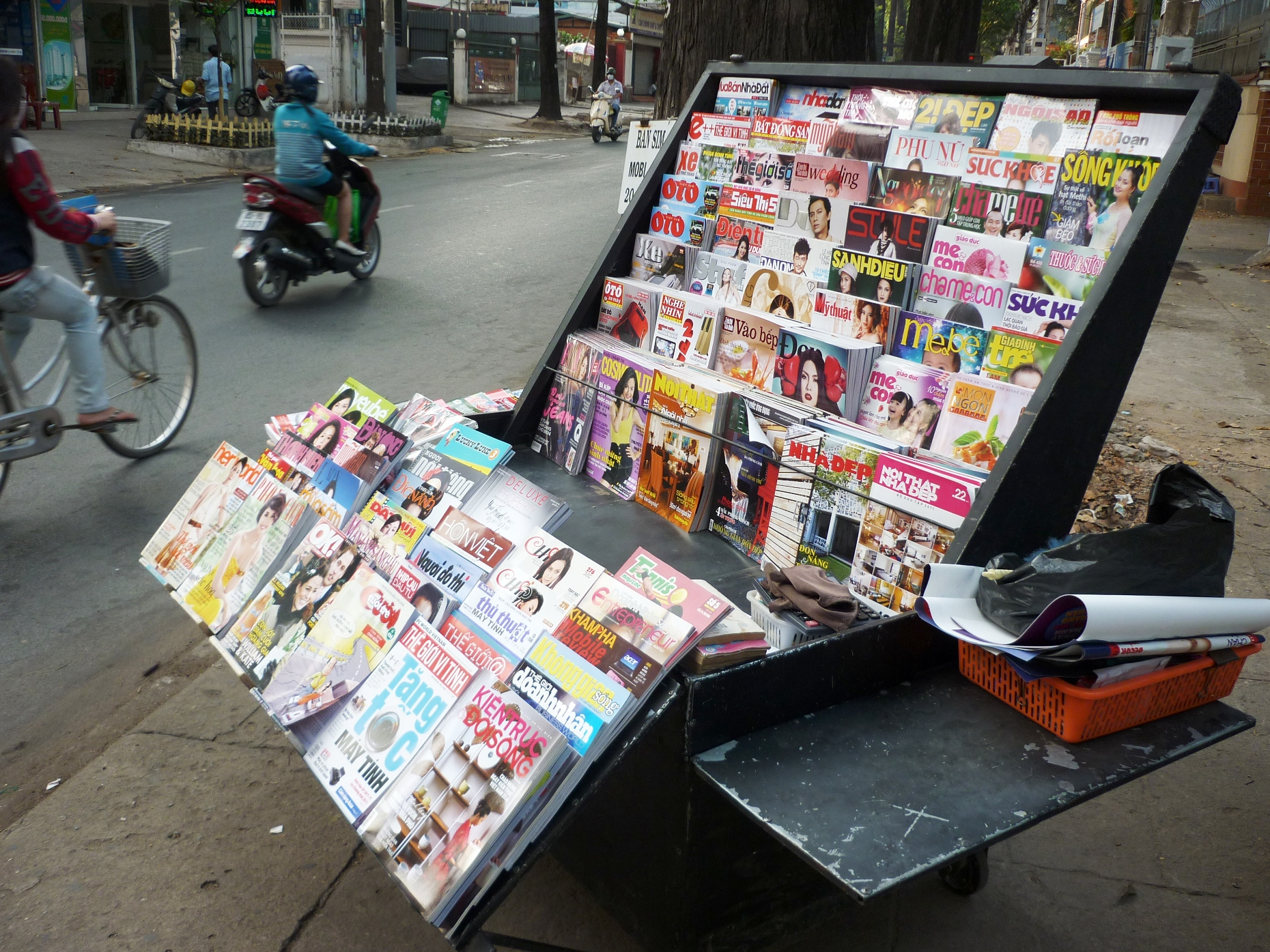 A news-stand on Phạm Ngọc Thạch street, District 3, Hồ Chí Minh City. Saigonese often keep themselves informed by reading the newspapers